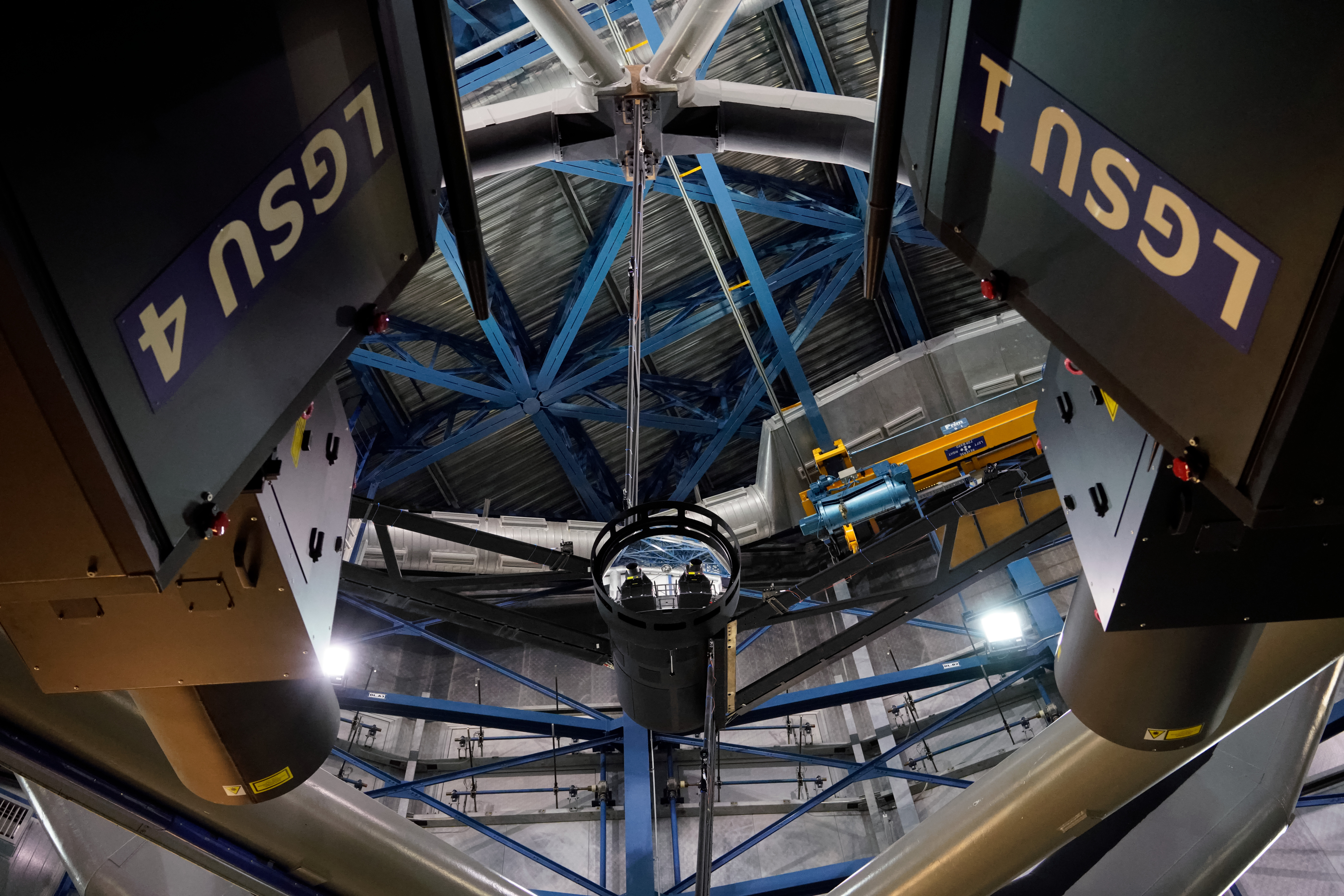 Mounted on the VLT’s Unit Telescope 4 (Yepun), the new Deformable Secondary Mirror is the largest adaptive optics mirror ever built and the heart of the new adaptive optics system that will enable to the telescope to produce even sharper images. Also in this photograph are two of the powerful lasers that make up the Four Laser Guide Star Facility, also part of the adaptive optics system.